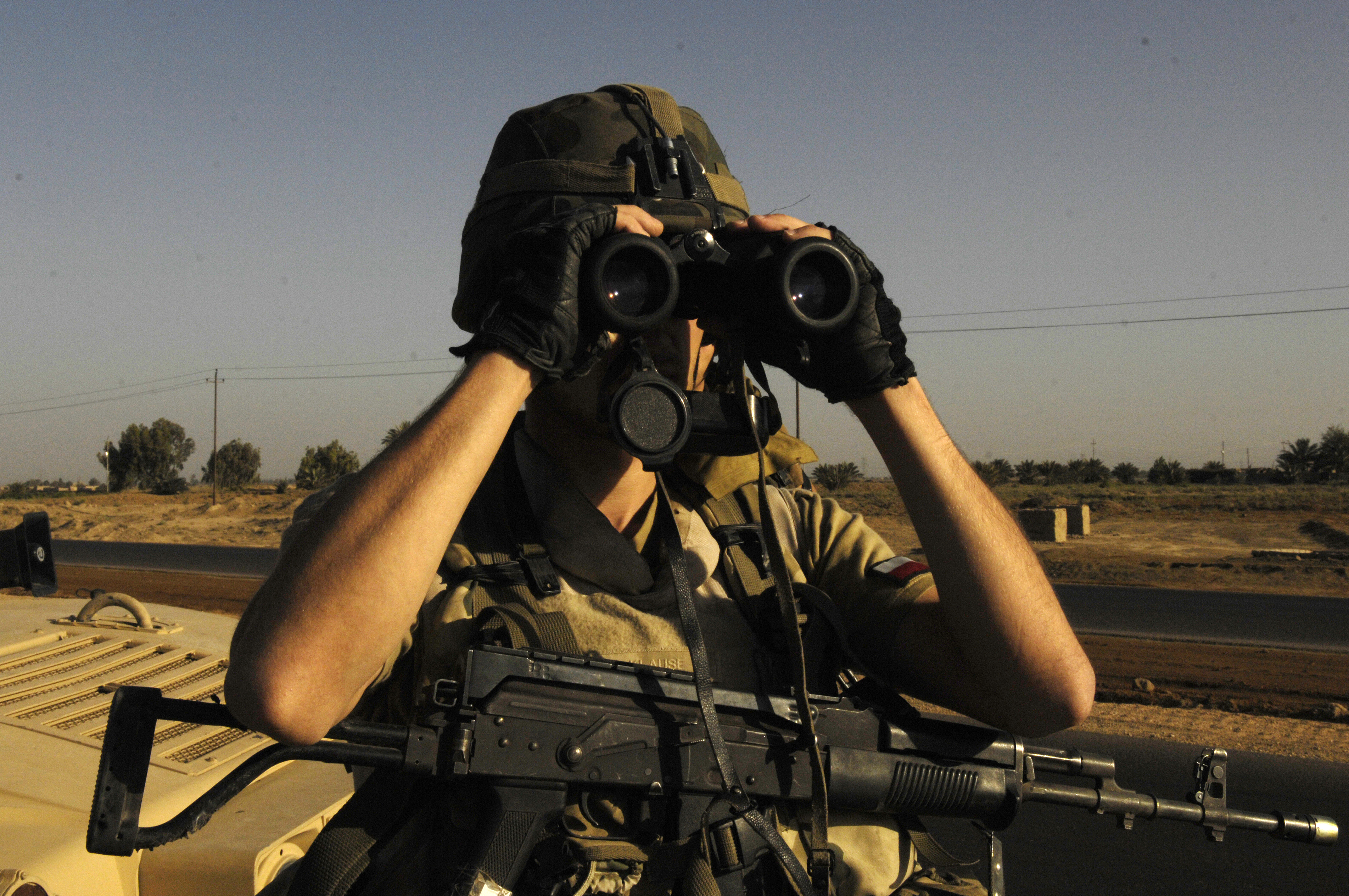 A Polish soldier from Task Force LYNX checks his field of engagement for potential hostile activity at a checkpoint in Ad Diwaniyah, Iraq June 6, 2008. The checkpoint is part of operations designed to disrupt weapons smuggling into the city.